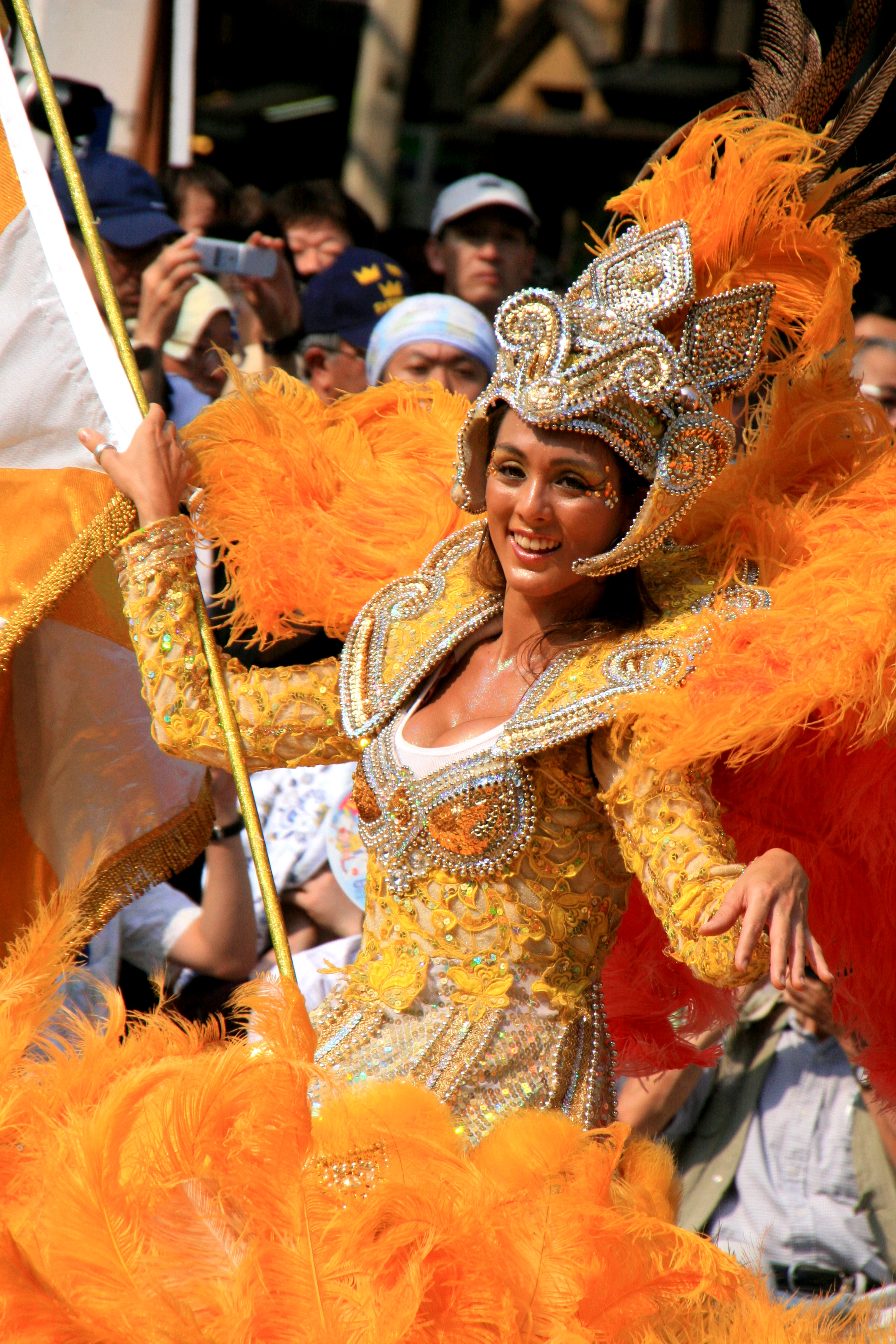 Asakusa Samba Carnival, annualy held in Asakusa, Tokyo, Japan.